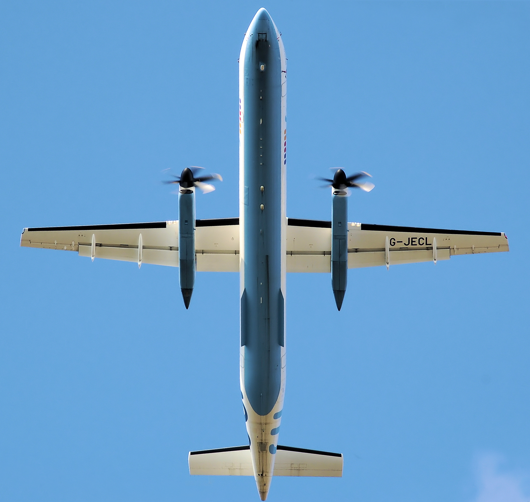 Flybe Bombardier Dash 8 Q400 (G-JECL) takes off from Birmingham International Airport, England. The undercarriages have fully retracted.